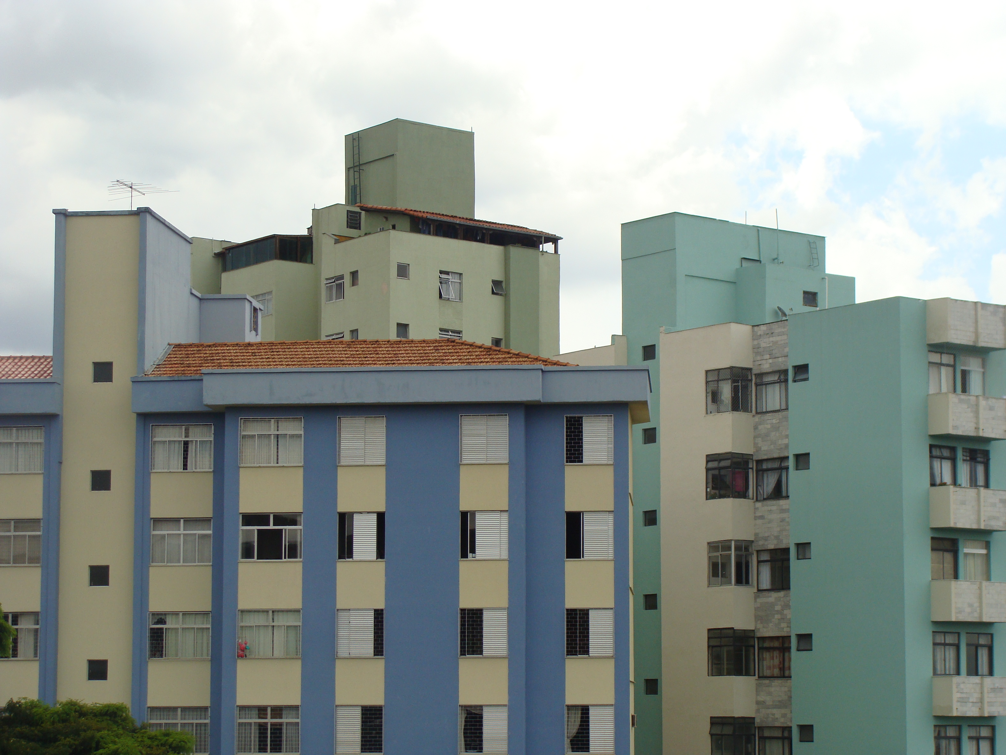 Buildings of Square Apa